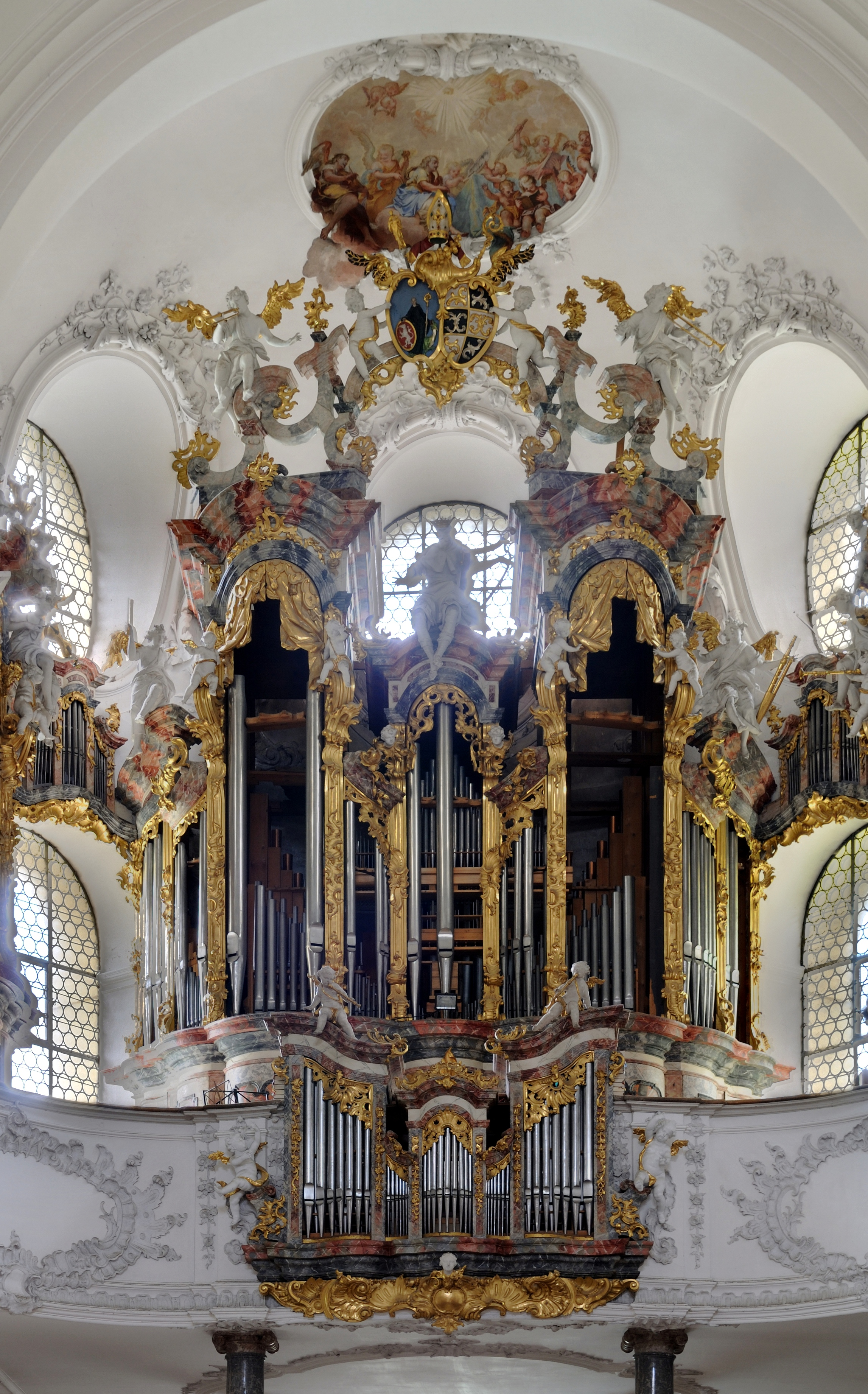 St. Mang Basilica Füssen